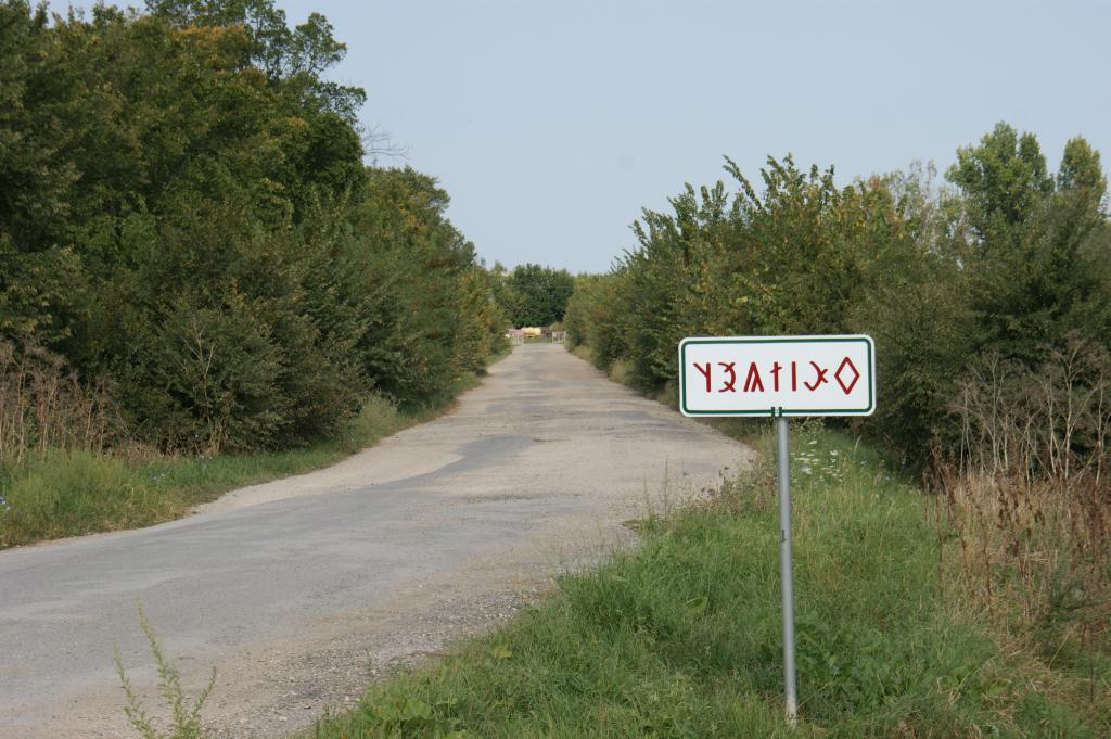 City limit table in Dévaványa-Kősziget, Hungary. Traditional hungarian letters (rovas)